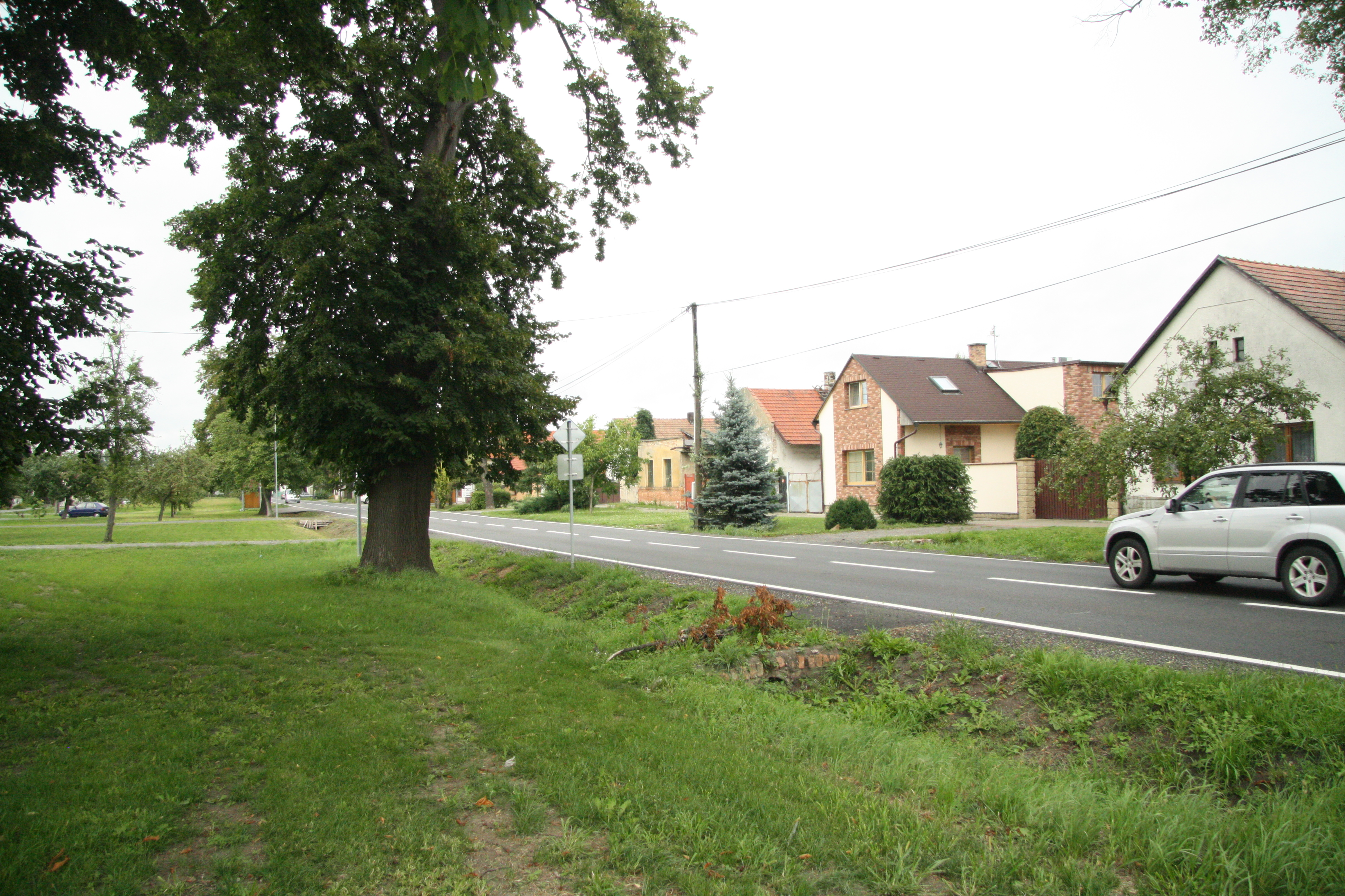 Center of Vrbová Lhota, Nymburk District.